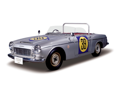 Datsun Fairlady